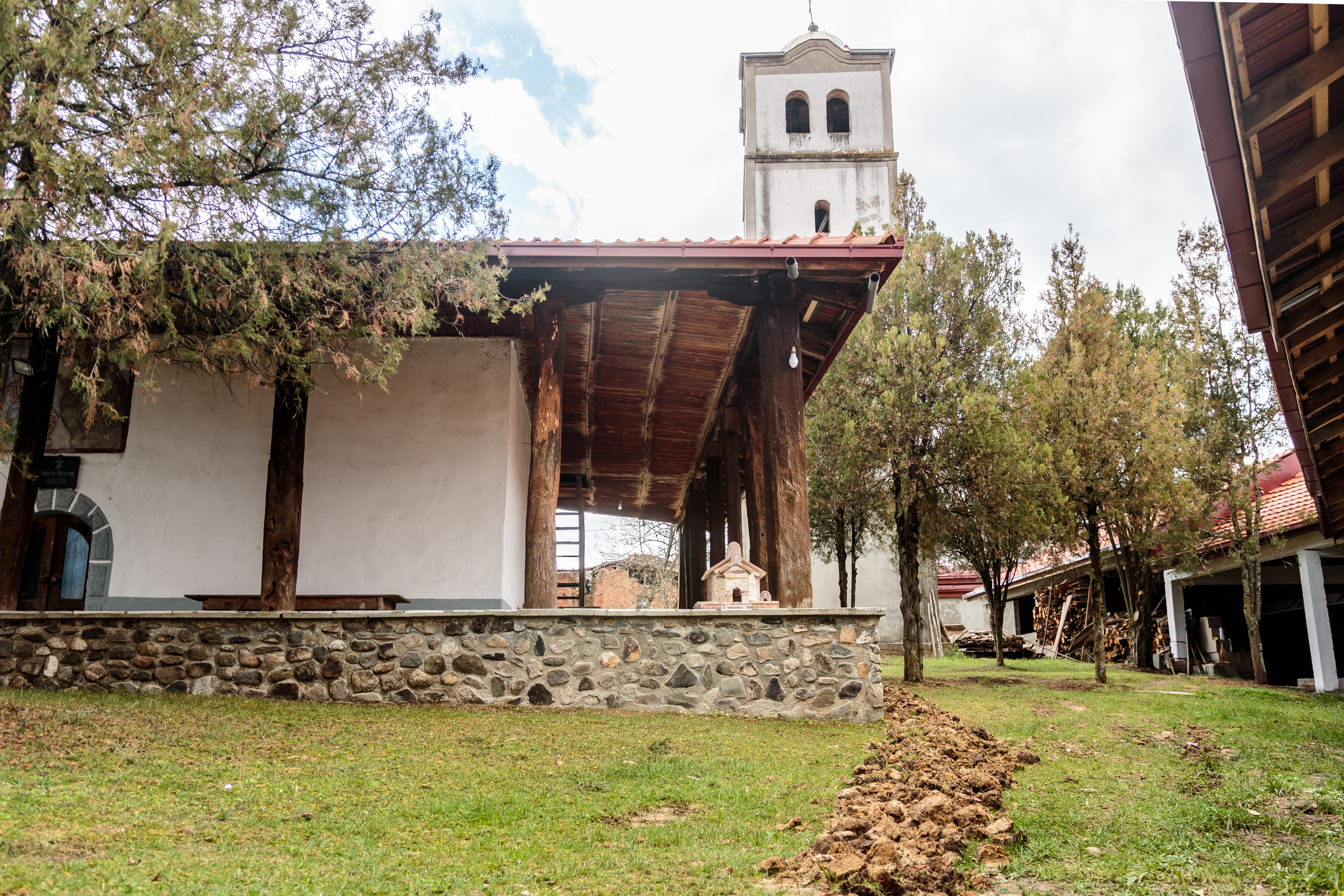 View of the Old St. Elijah's Church in the village of Mitrašinci, Maleševija, Macedonia